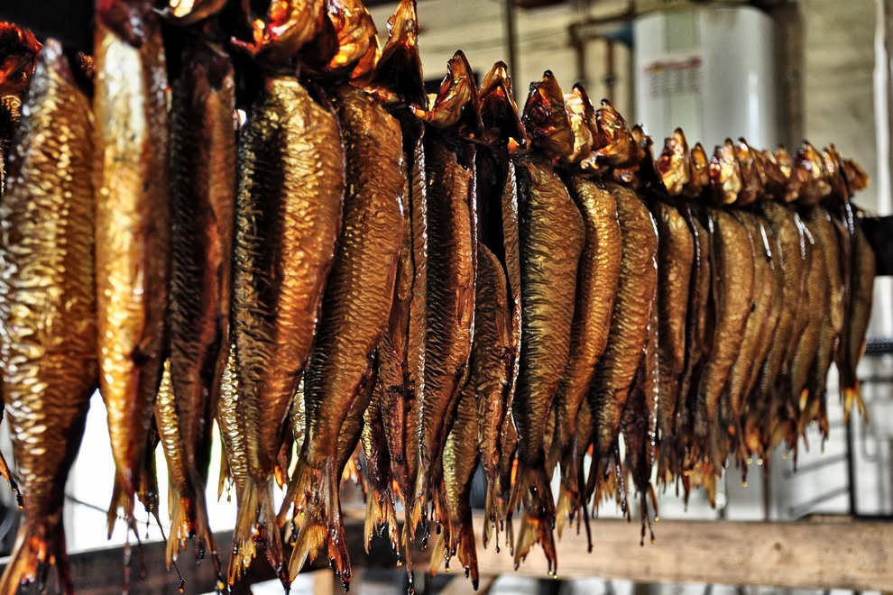 Smoked herring in Hasle on the island of Bornholm, Denmark